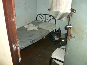 flop pad